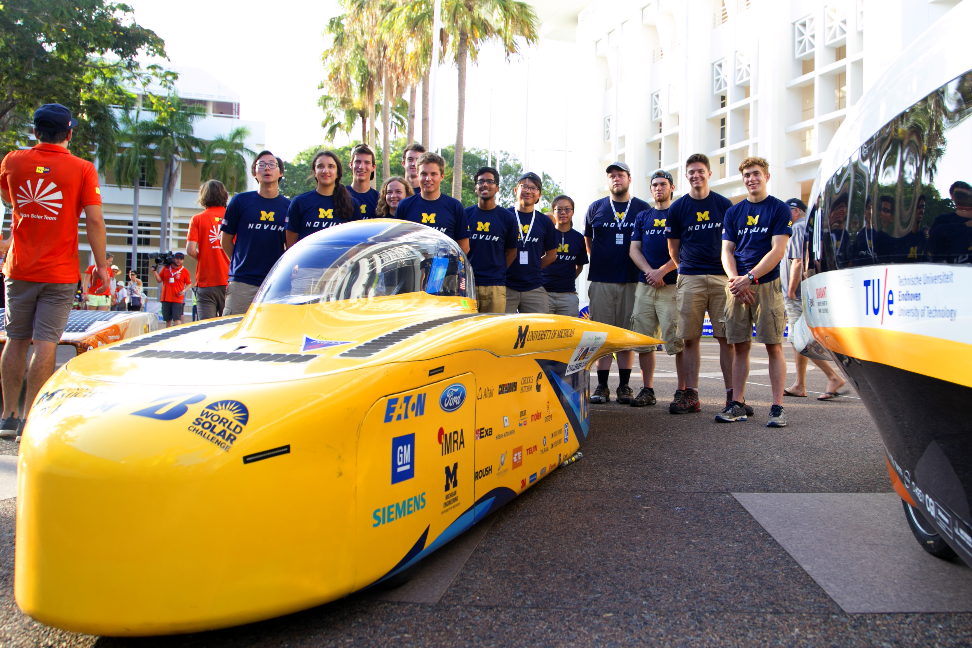 Photo by: Akhil Kantipuly, UM Solar Car Team Digital Media Producer